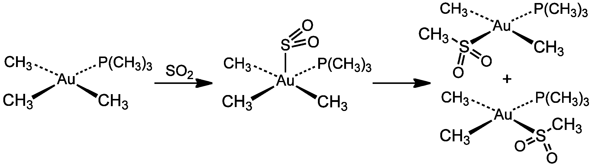 Pathway for SO2 insertion into sq planar Me3AuL